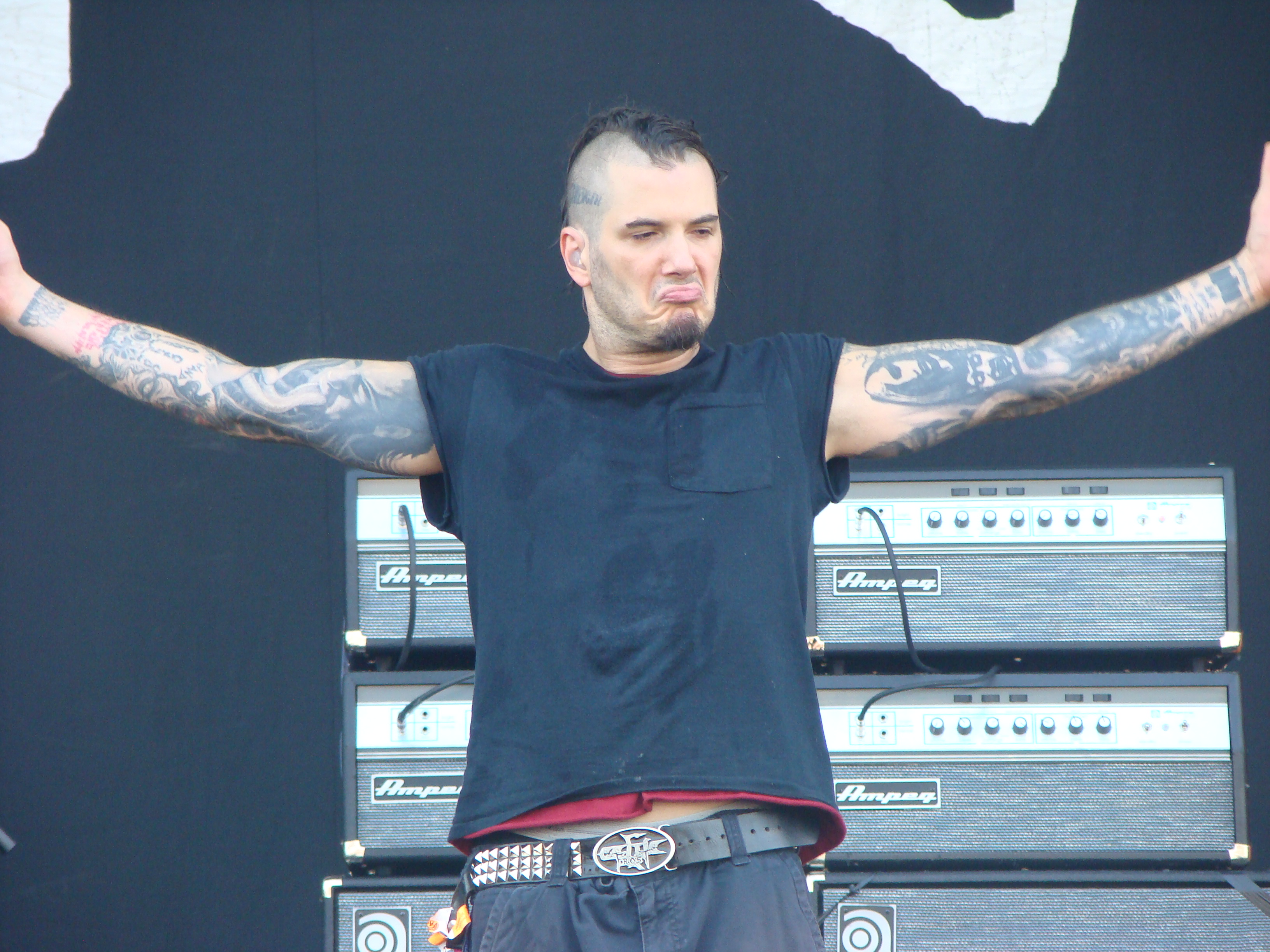 Down´s vocalist Phil Anselmo, playing live at Gods of Metal 2009.